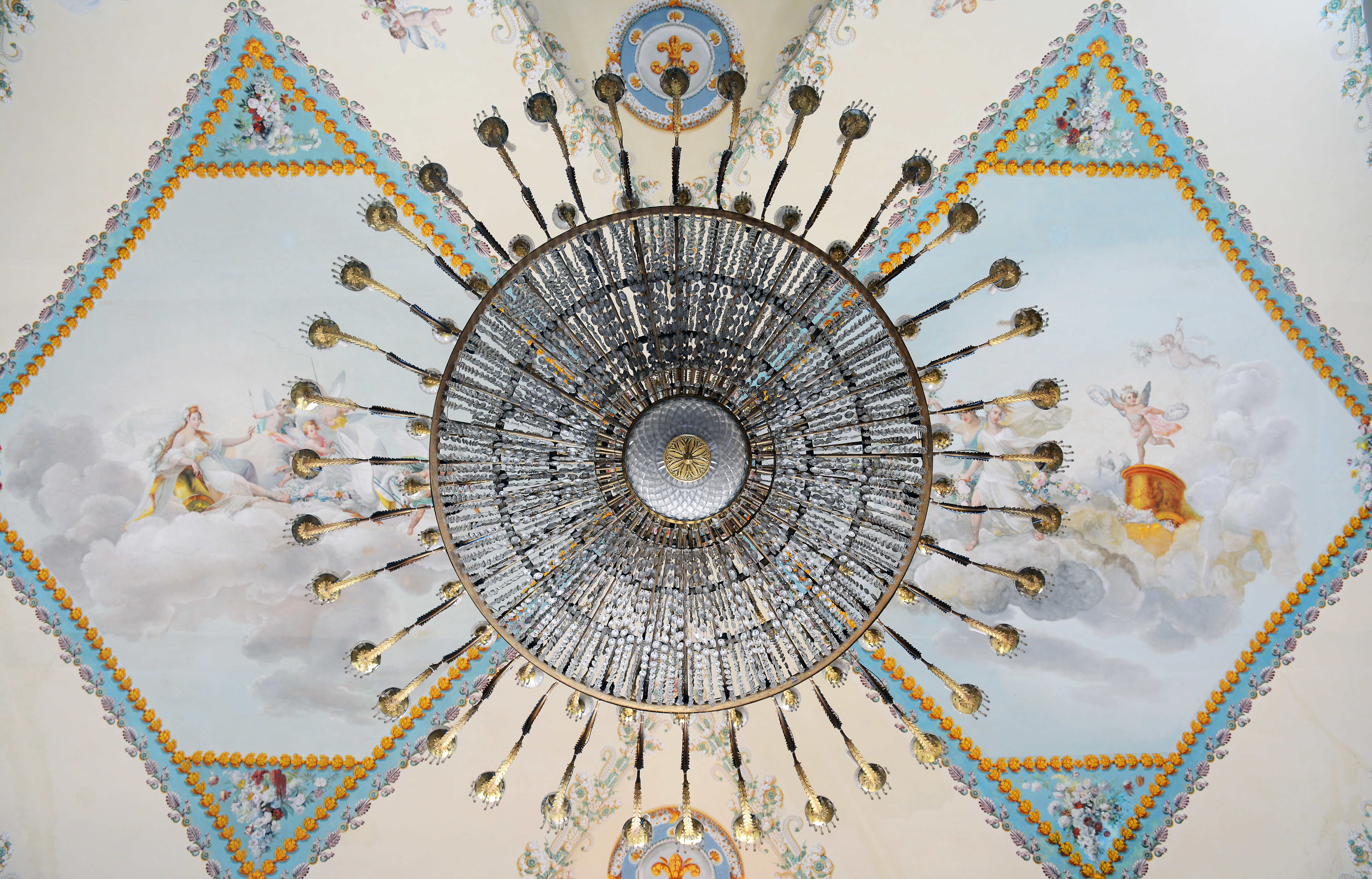 Chandelier of the nineteenth century in the Museo di Capodimonte (Napoli)